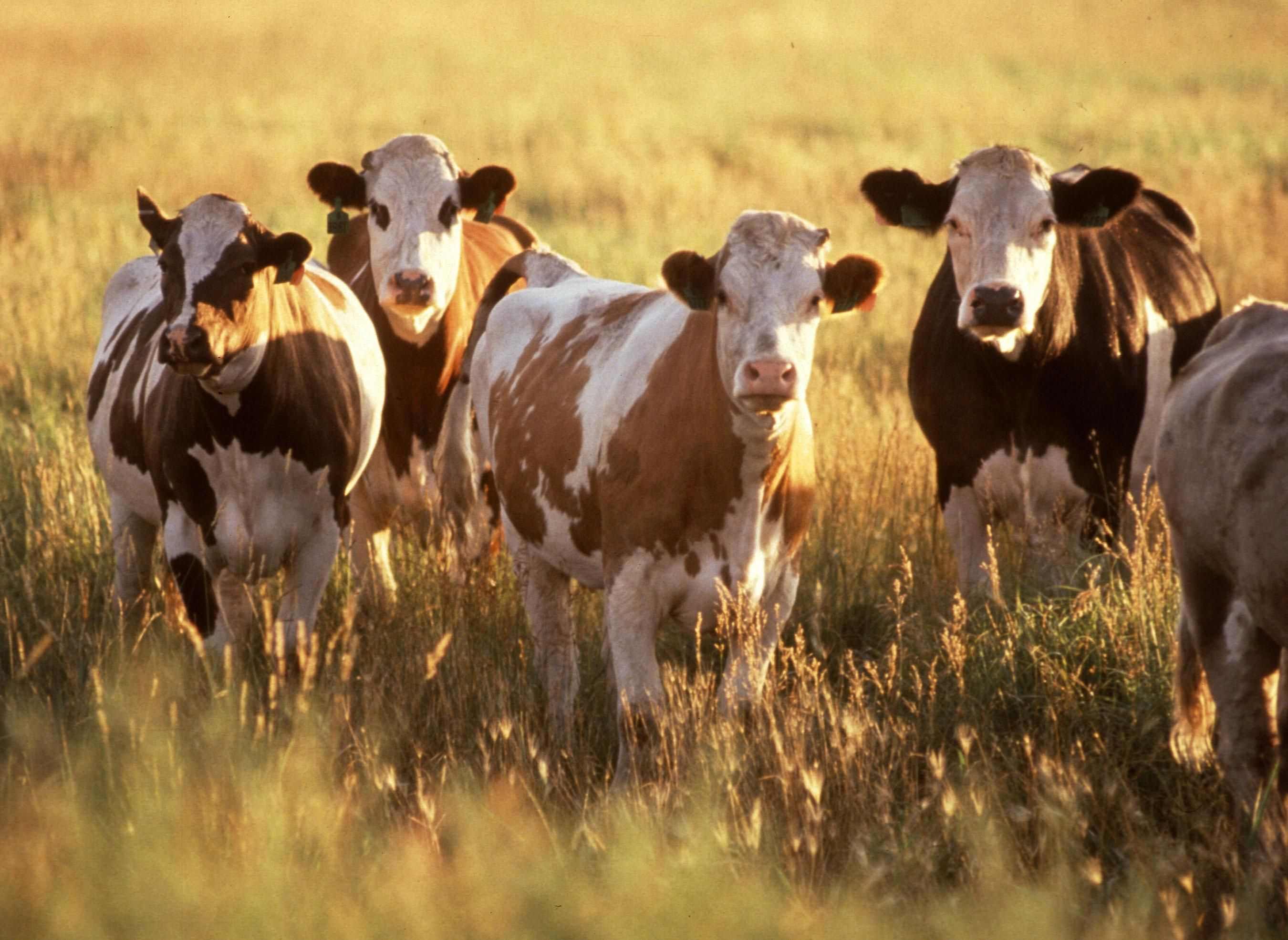 Image title: Cattle Image from Public domain images website